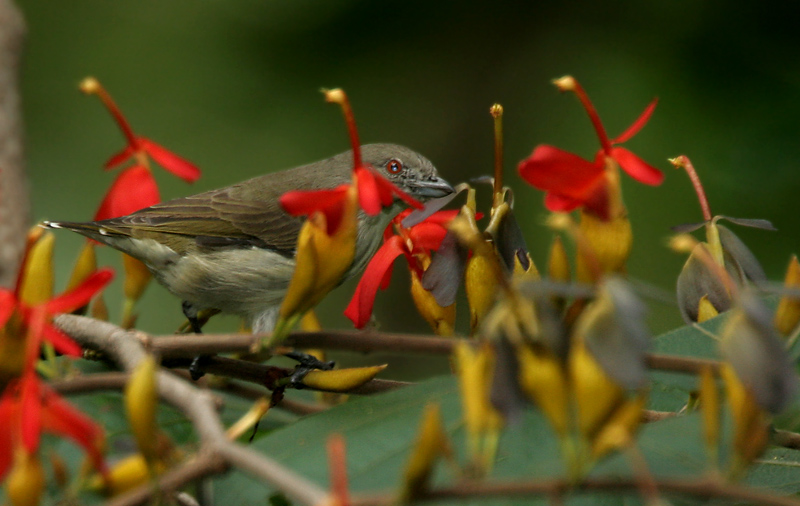 Thick-billed Flowerpecker Dicaeum agile (Pun: Full chuki, M.P. Che, Guj: Phul sunghani, Jadichanch fulsunghani, Mar: Phultocha, Ta: For flowerpeckers -Poon-chittu, Poon-kothi, Te: Chittu-jitta, Poopudupu jitta, Mal: Ittakkannikuruvi) on Helicteres isora - East Indian screw tree, nut-leaved screw tree • Bengali: antamora • Hindi: bhendu, damni, jonka phal, kapasi, मरोड़ फल maror phal • Kannada: yedamuri • Malayalam: isora-murri, valampiri • Marathi: अटी ati, धामणी dhamani, kapaisi, केवण kewan, मुरडशेंग muradsheng • Oriya: murmuria • Sanskrit: अवर्तनि avartani, मृग शृङ्ग mrigashringa • Sindhi: vurkatee • Tamil: வலம்புரி valampuri • Telugu: నులితడ nulitada • Urdu: marorphali - in Narsapur, Medak district, Andhra Pradesh, India.